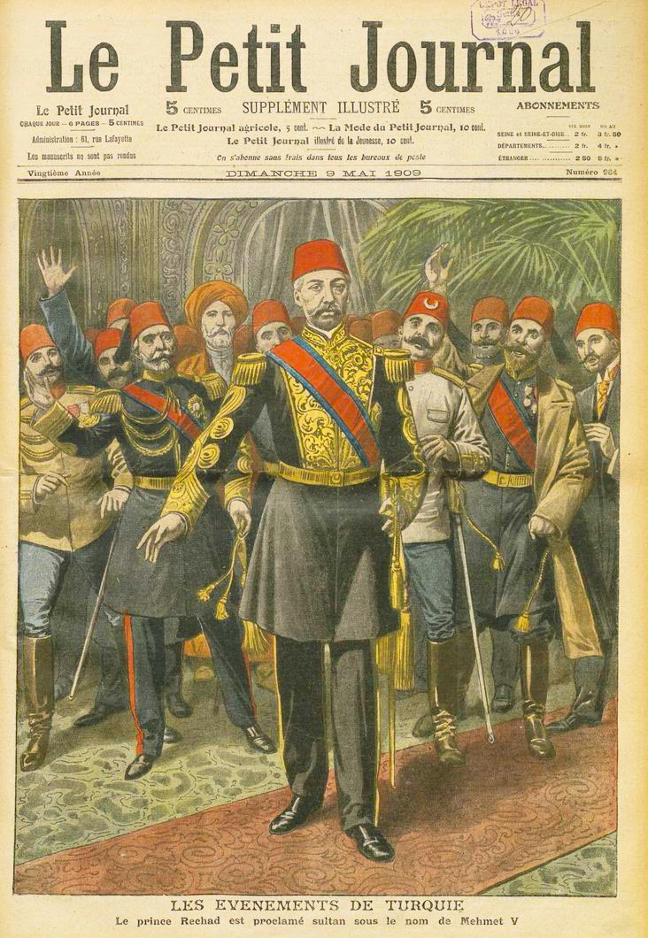 Le Petit Journal 1909, Mehmed V proclaimed Sultan.